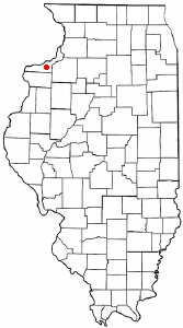 Category:Illinois city locator maps